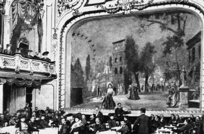 Interior of theatre Neue Wiener Bühne in Vienna at times of variety Orpheum there.